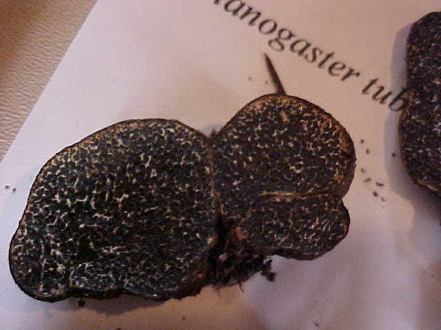 The "false-truffle" mushroom species Melanogaster tuberiformis Corda. Specimen photographed in Portland, Multnomah Co., Oregon, USA.